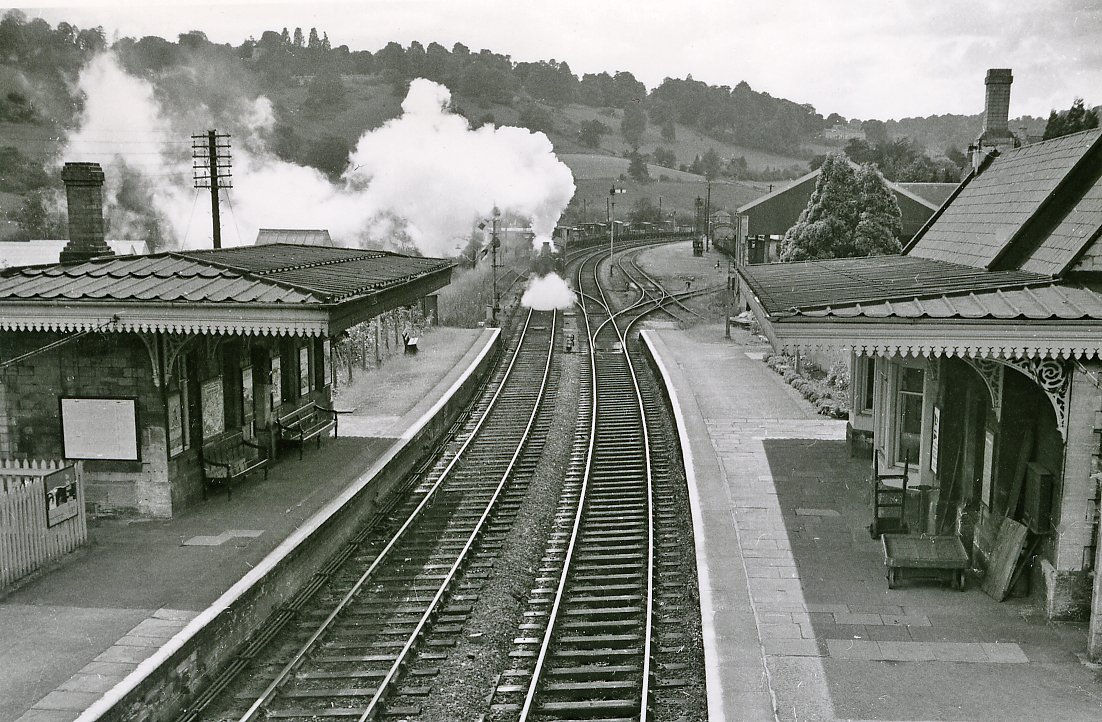 Brimscombe station. View westward, towards Stroud and Gloucester, with 0-4-2T No. 1424 propelling a Chalford - Gloucester auto-train: ex-Great Western Swindon - Stroud - Gloucester - South Wales/Cheltenham main line. Brimscombe station was closed when the auto-train service was withdrawn from 2/11/64.